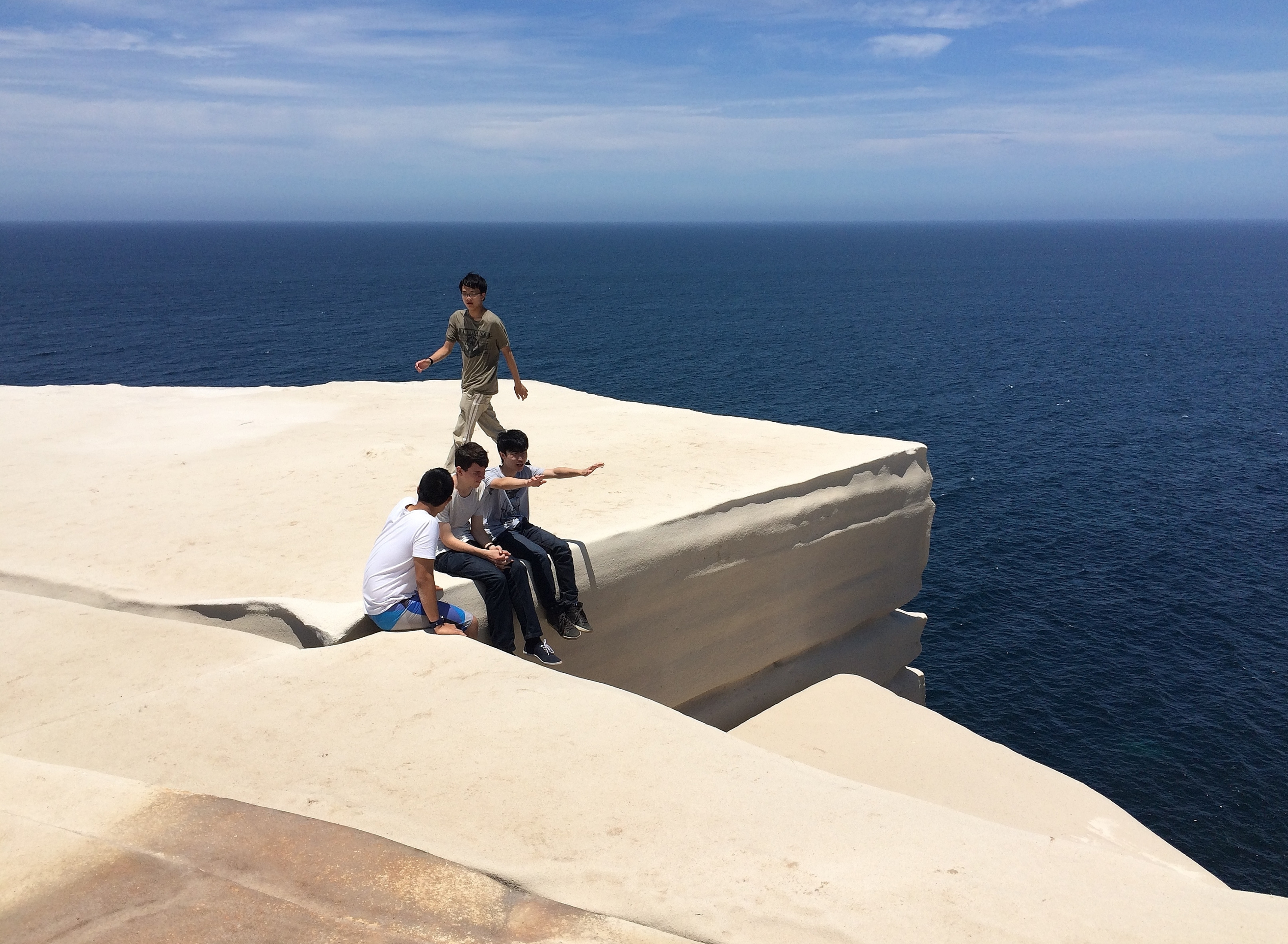 Ty walks back to grab his phone, while Chenny, Adrian, and Rea perch themselves on the western face of Wedding Cake Rock, an almost perfect-white limestone rock formation hanging on a cliff face that doubles as one of the more famous landmarks on the Royal National Park Coast Track. Providing travellers with an uninterrupted view of the Tasman Sea, the rock has attracted significant popularity for its surreal shape and colour – its name deriving from its similarity to a vanilla wedding cake.